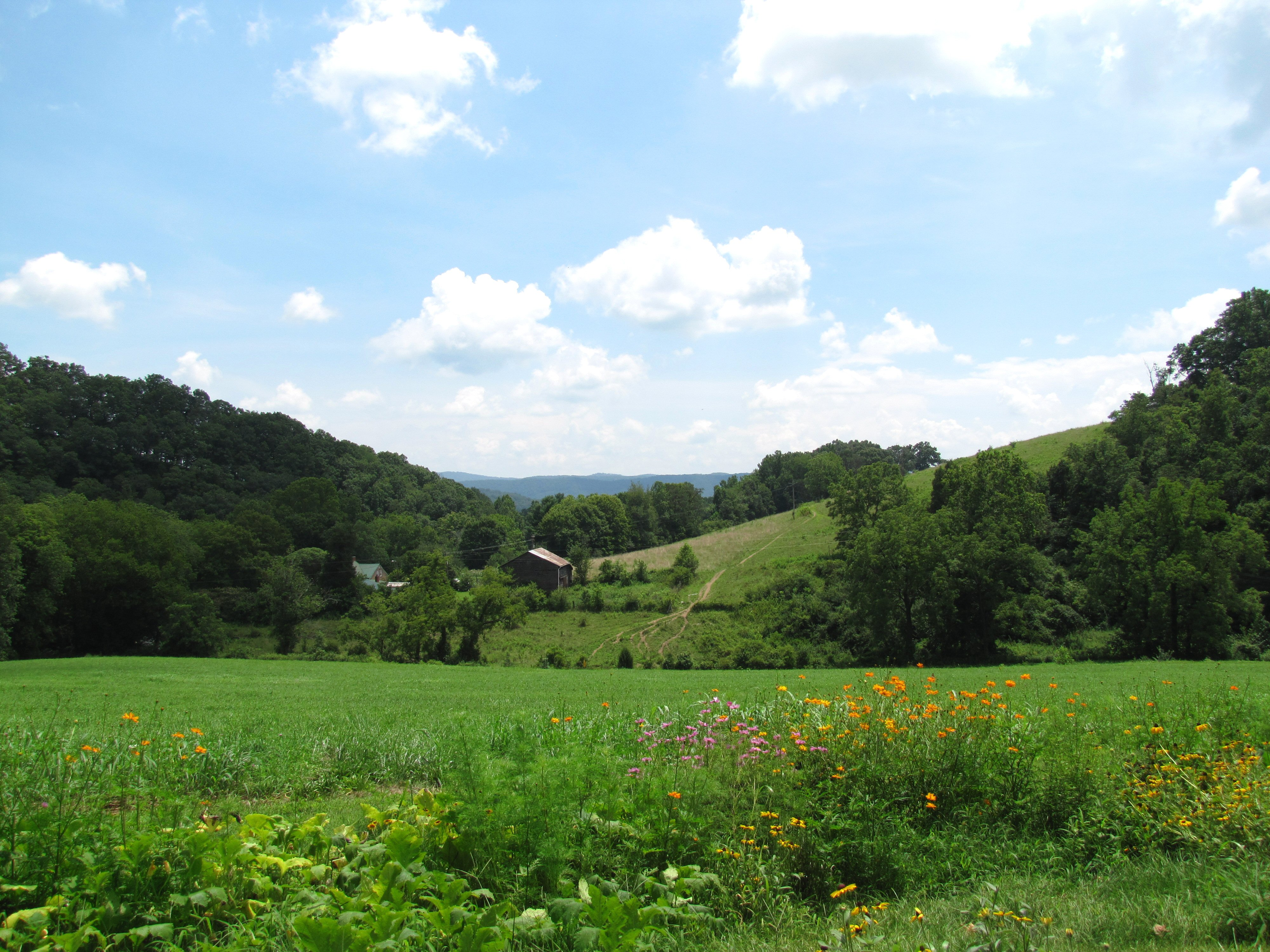 The lower Big Creek Valley, viewed from the Amis House in Rogersville, Tennessee, United States.